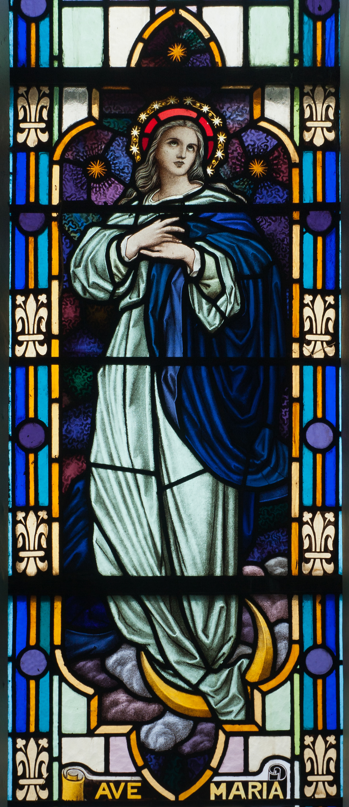 Centre light of the triple window in the north-west gable, depicting the Immaculata.